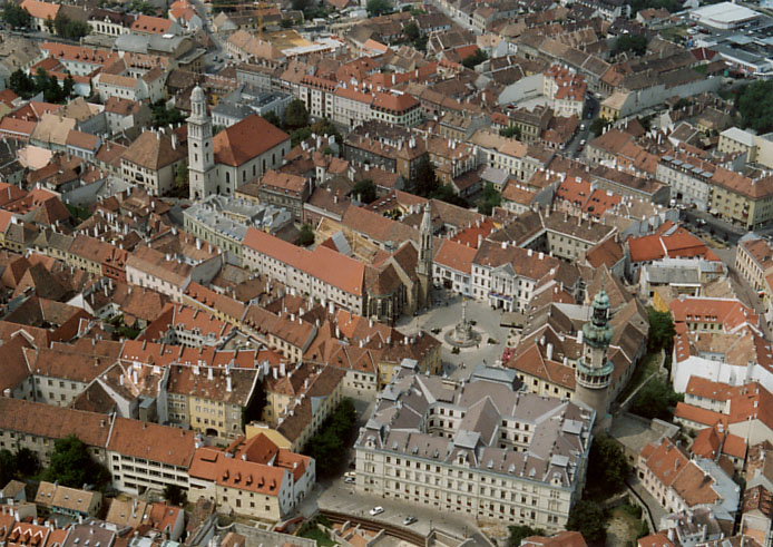 Sopron, Hungary, aerial photography